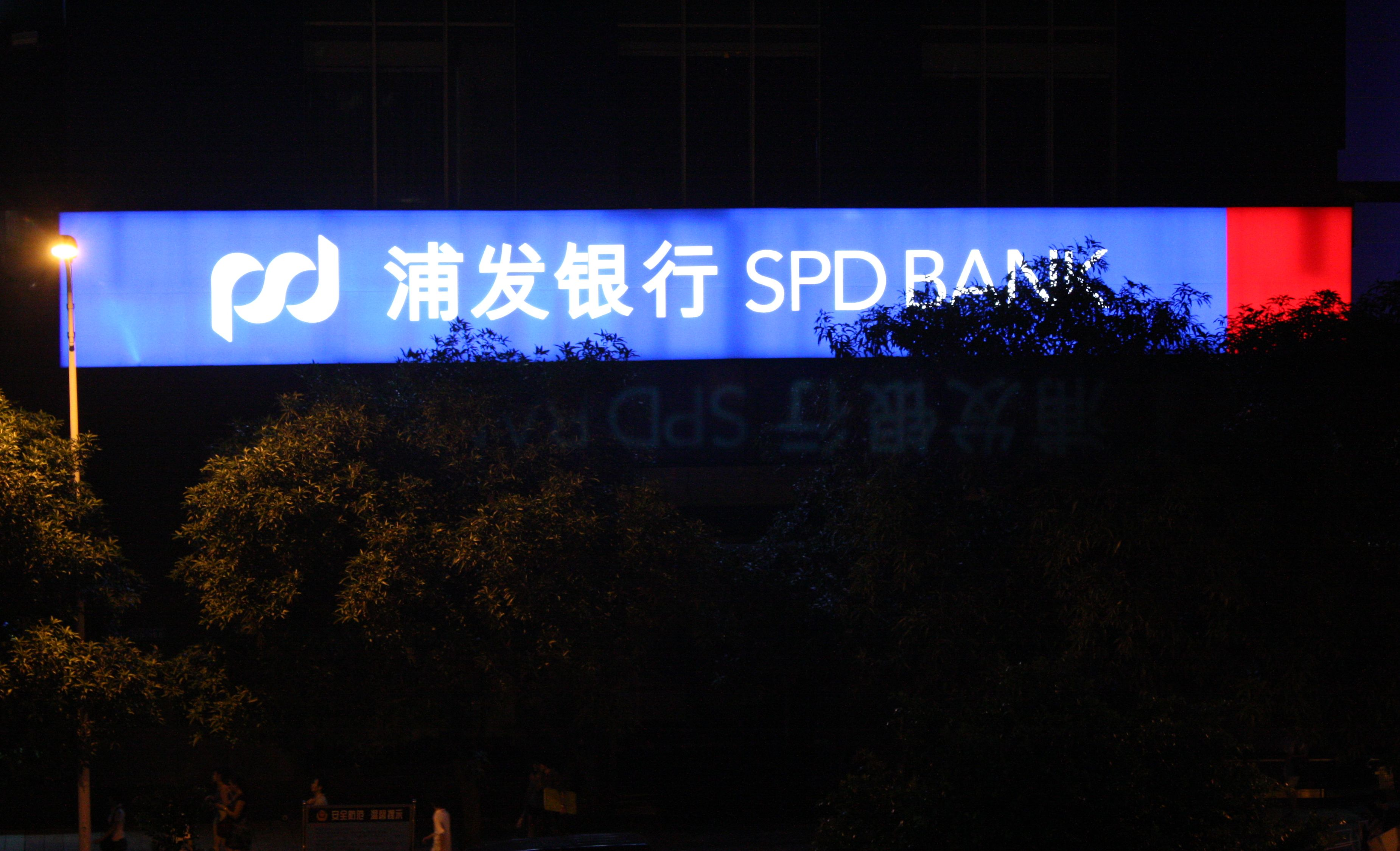 Shanghai Pudong Development Bank (SPD Bank) in Guangzhou/China